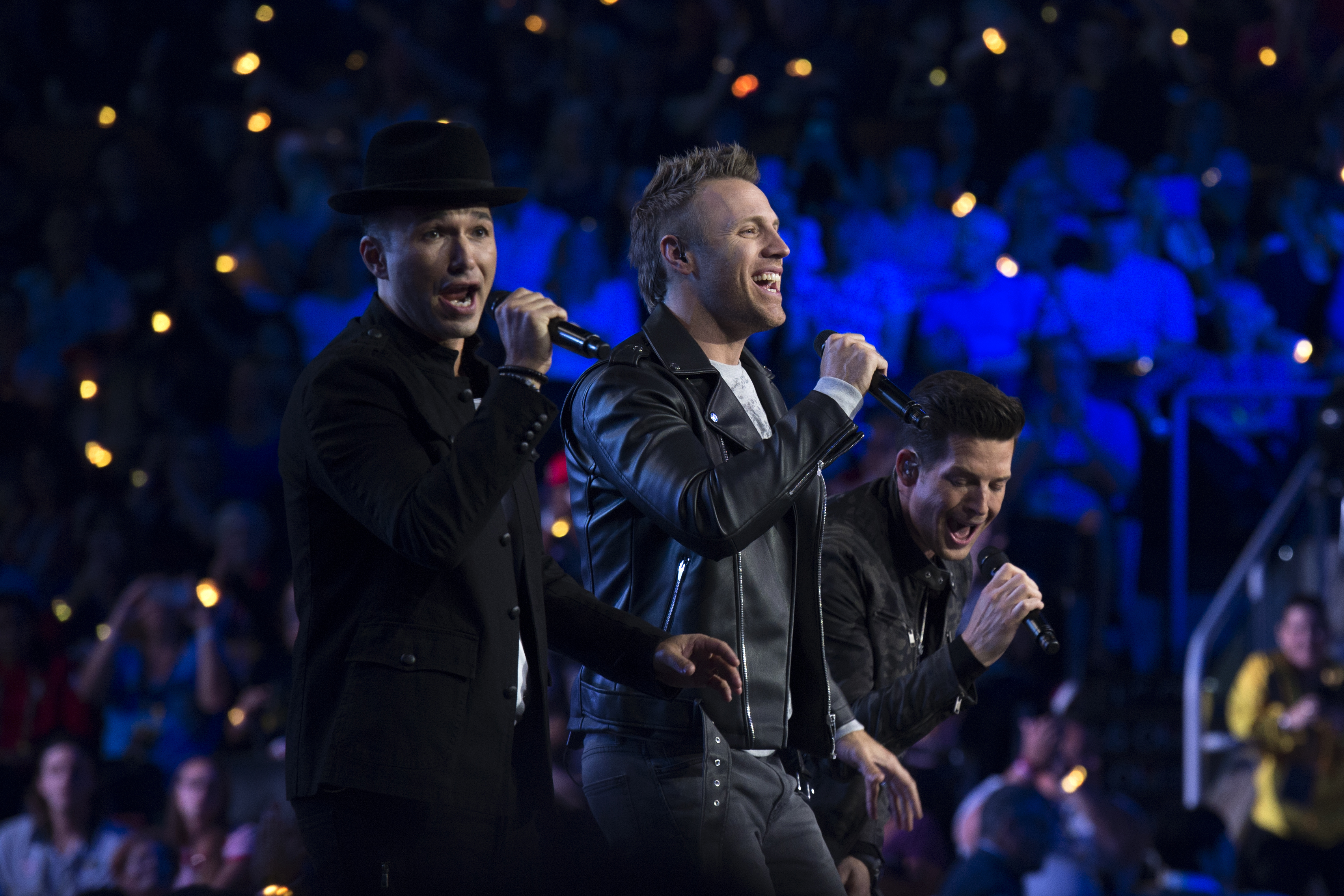 Recording artist group The Tenors performs for the 2017 Invictus Games opening ceremonies in Toronto, Canada Sept. 23, 2017. (DoD photo by EJ Hersom)